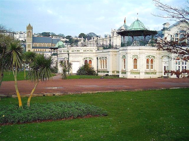 Torquay Pavilion in Devon, England. In the background is St John's Church.